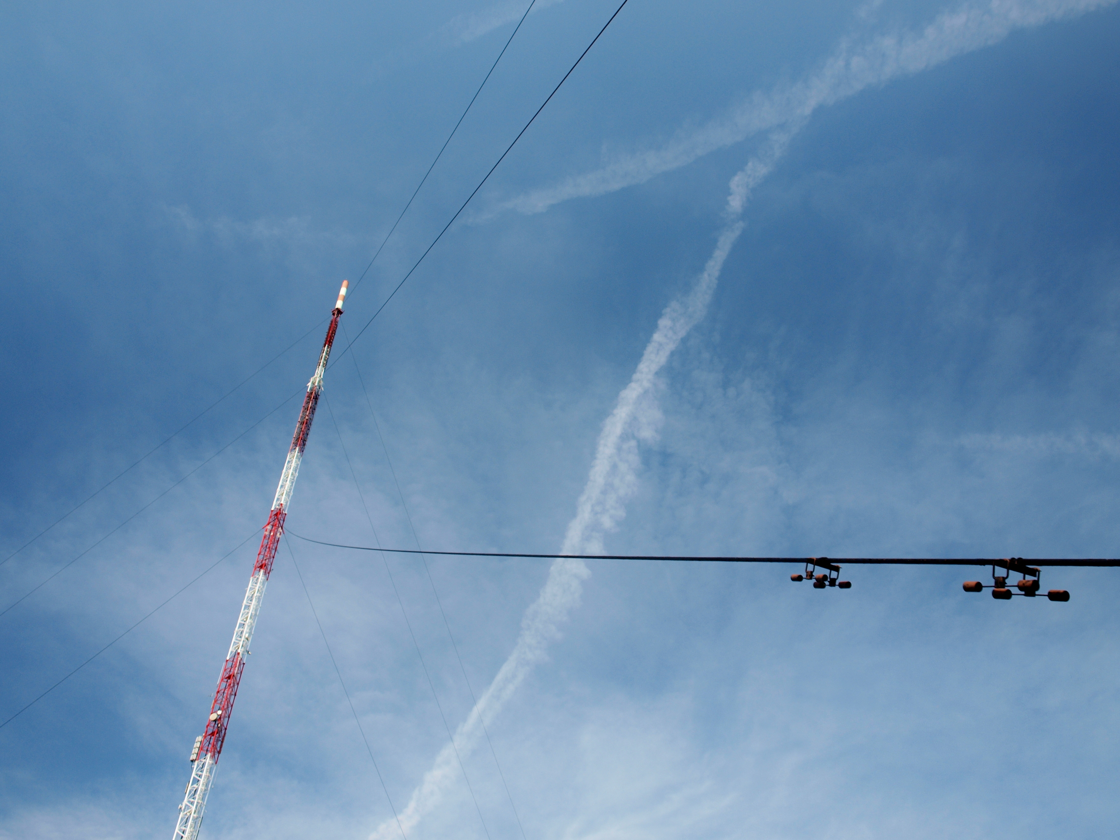 Chorągwica - the 286 meters high pole of RTV broadcasting center